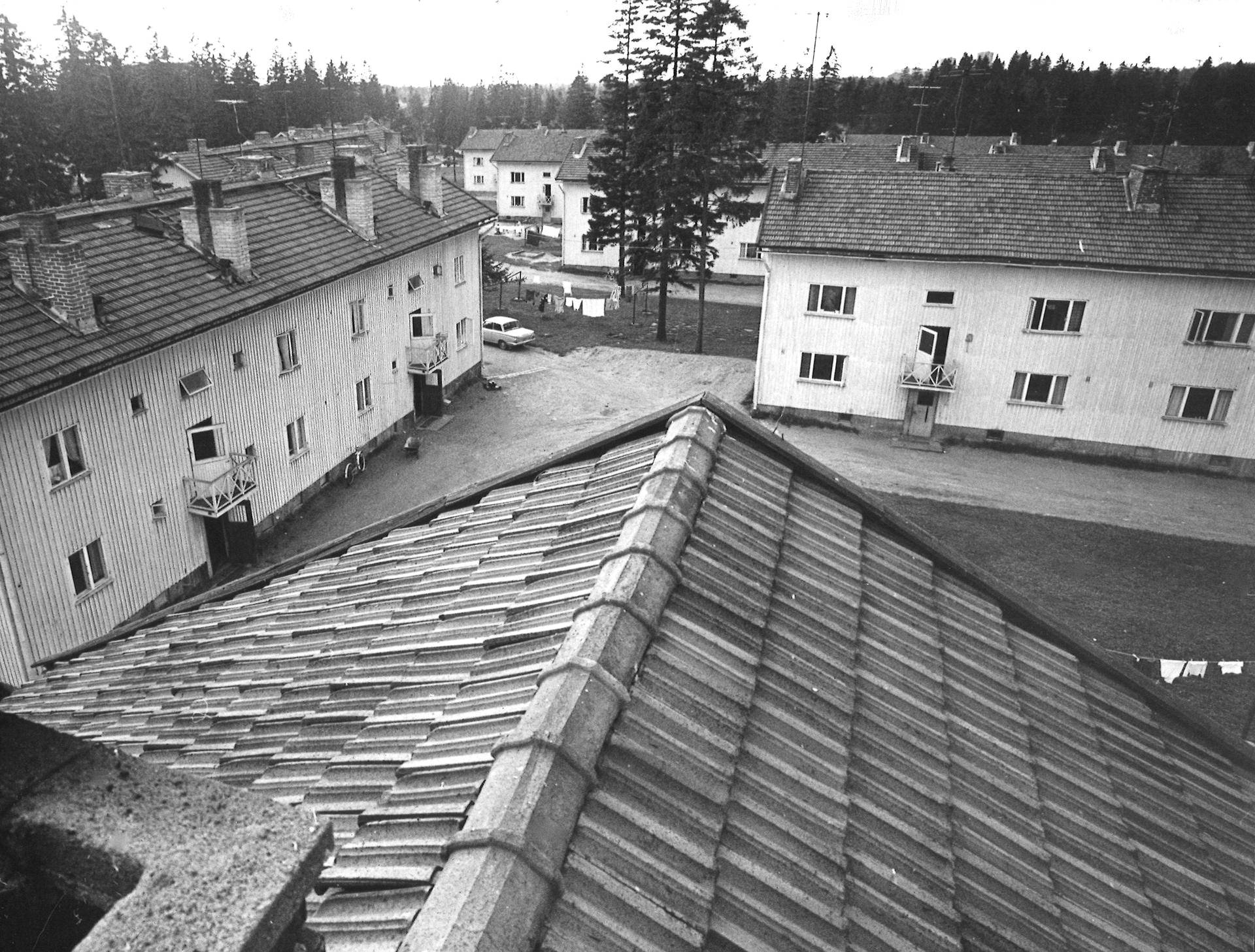 Photograph of old wooden apartment buildings from the 1940s in Maunula, Helsinki (Metsäpurontie, Maunulantie, Kuusikkotie). They were about to be demolished and relaced with new buildings.